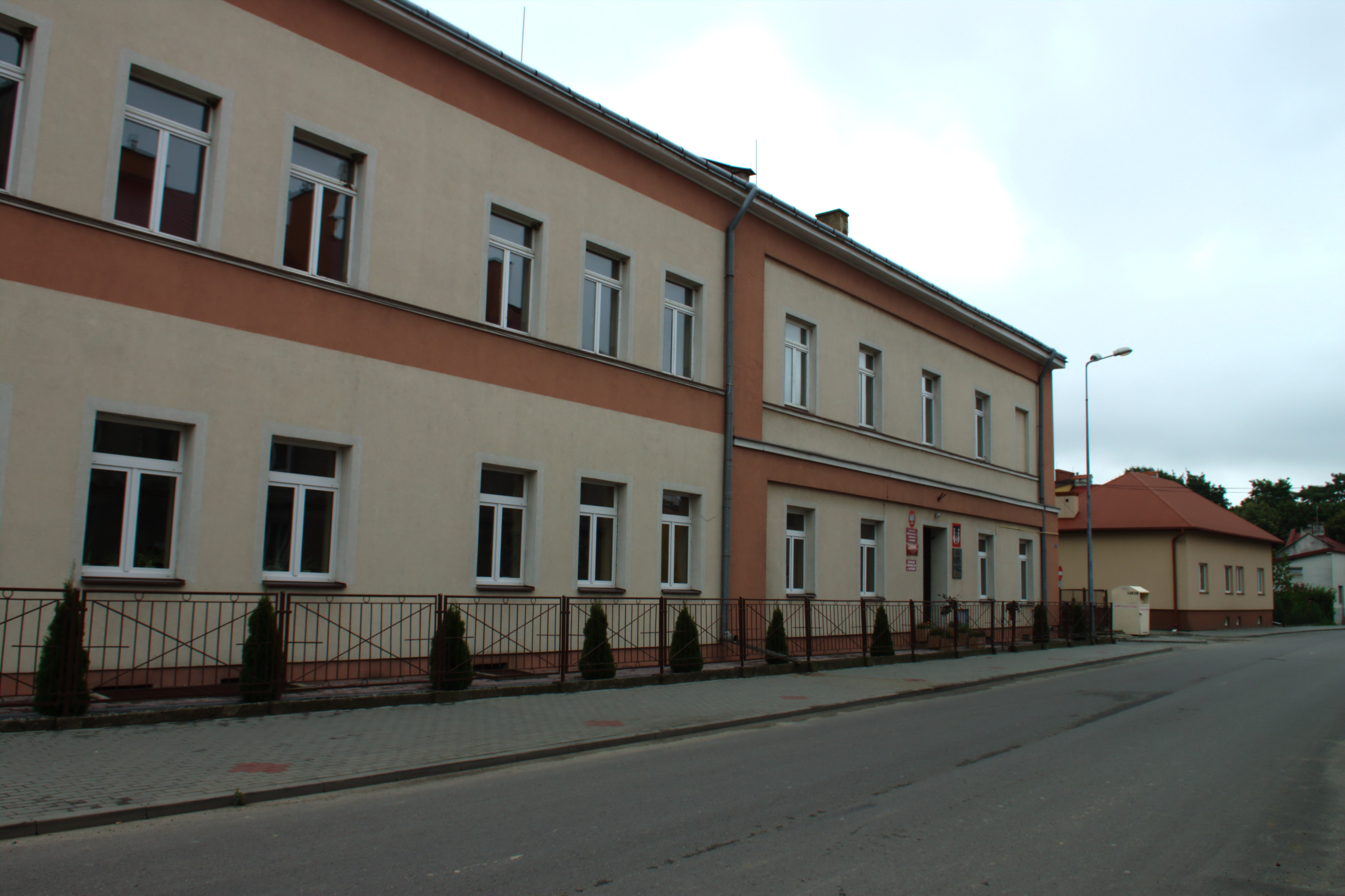 A school building in central part of the town of Radymno, west from main square. Podkarpackie voivodeship, Poland